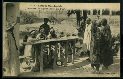 Native law-court in an outpost. (somewhere in French West Africa: likely Senegal). Note the judges are wearing traditional French headgear. Tribunal indigène dans un poste. Published in 1920 by Fortier - 208.